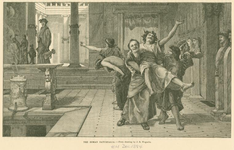 Photogravure of a drawing depicting a drunken reveler being carried away by his friends during the Saturnalia. The setting appears to be the atrium of a Roman household. In the background, a figure holding an empty urn in one hand gazes on from atop some steps.